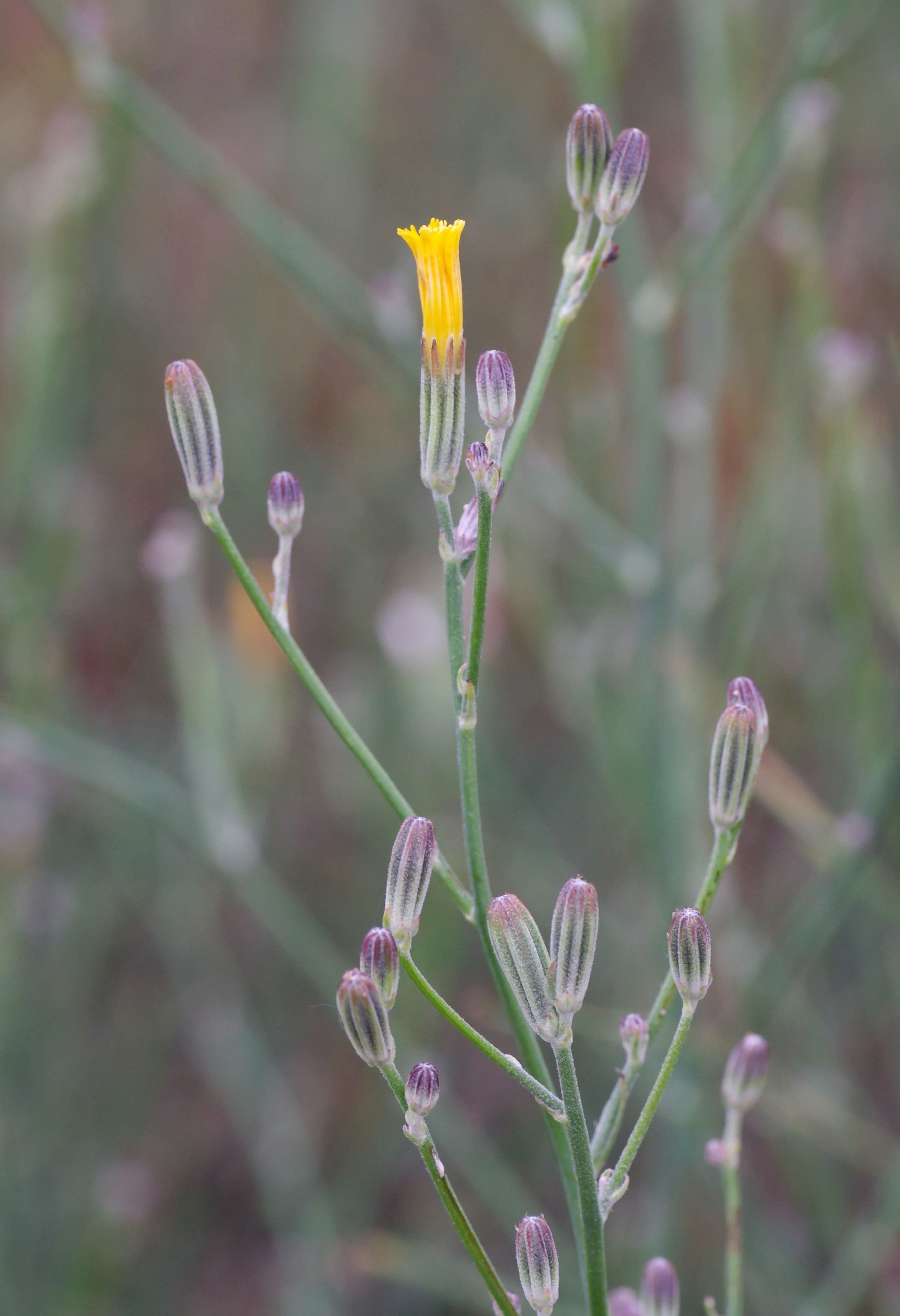 Detail of flowering Chondrilla juncea (Asteraceae).